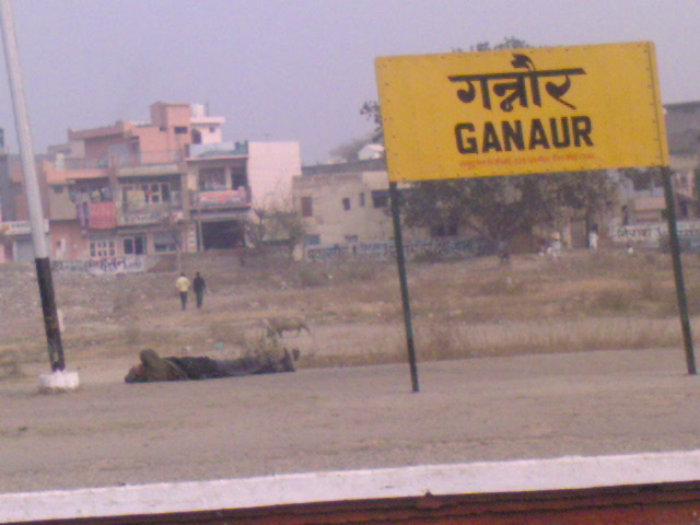 Ganaur Rail Station pic